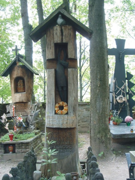 Grave of Antoni Kenar (1906-1959), cemetery cross made by Antoni Rząsa, photo by Jadwiga